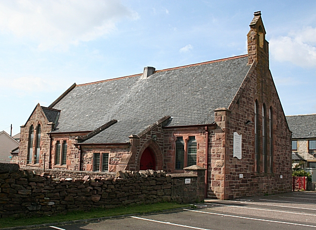 Lochbroom Free Kirk One of several kirks in Ullapool, serving a variety of denominations.